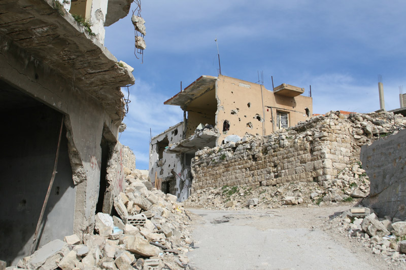 Centre of Bint Jbeil after the end of the war.